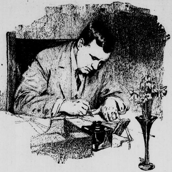 Drawing of James Keeley, Chicago newspaper editor and publisher, appeared in the New York Tribune, May 17, 1914.